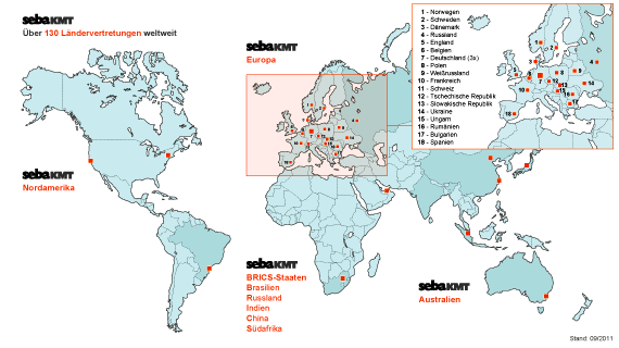 SebaKMT subsidiaries and agents worldwide